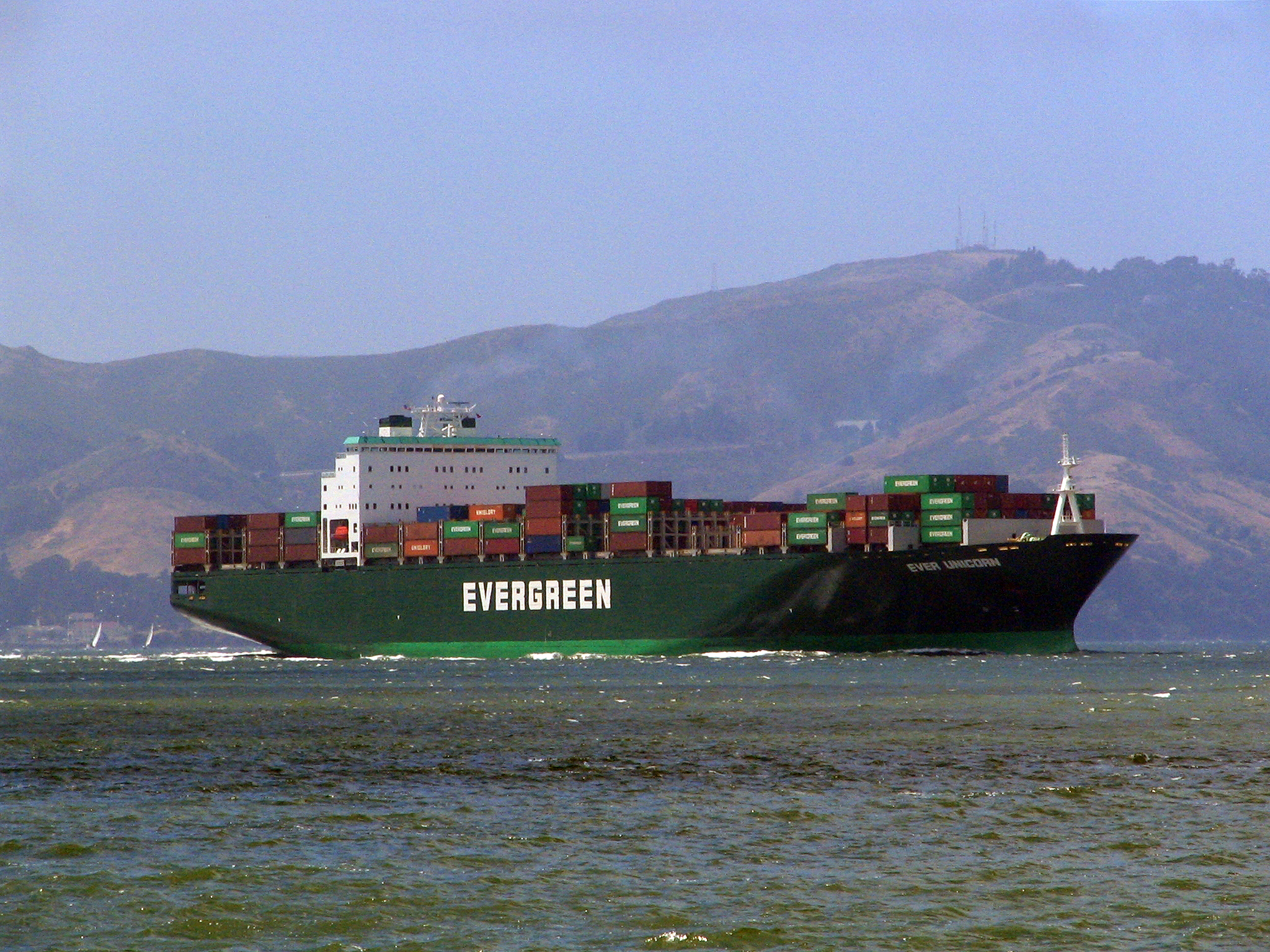 One of the sights on our Segway tour.